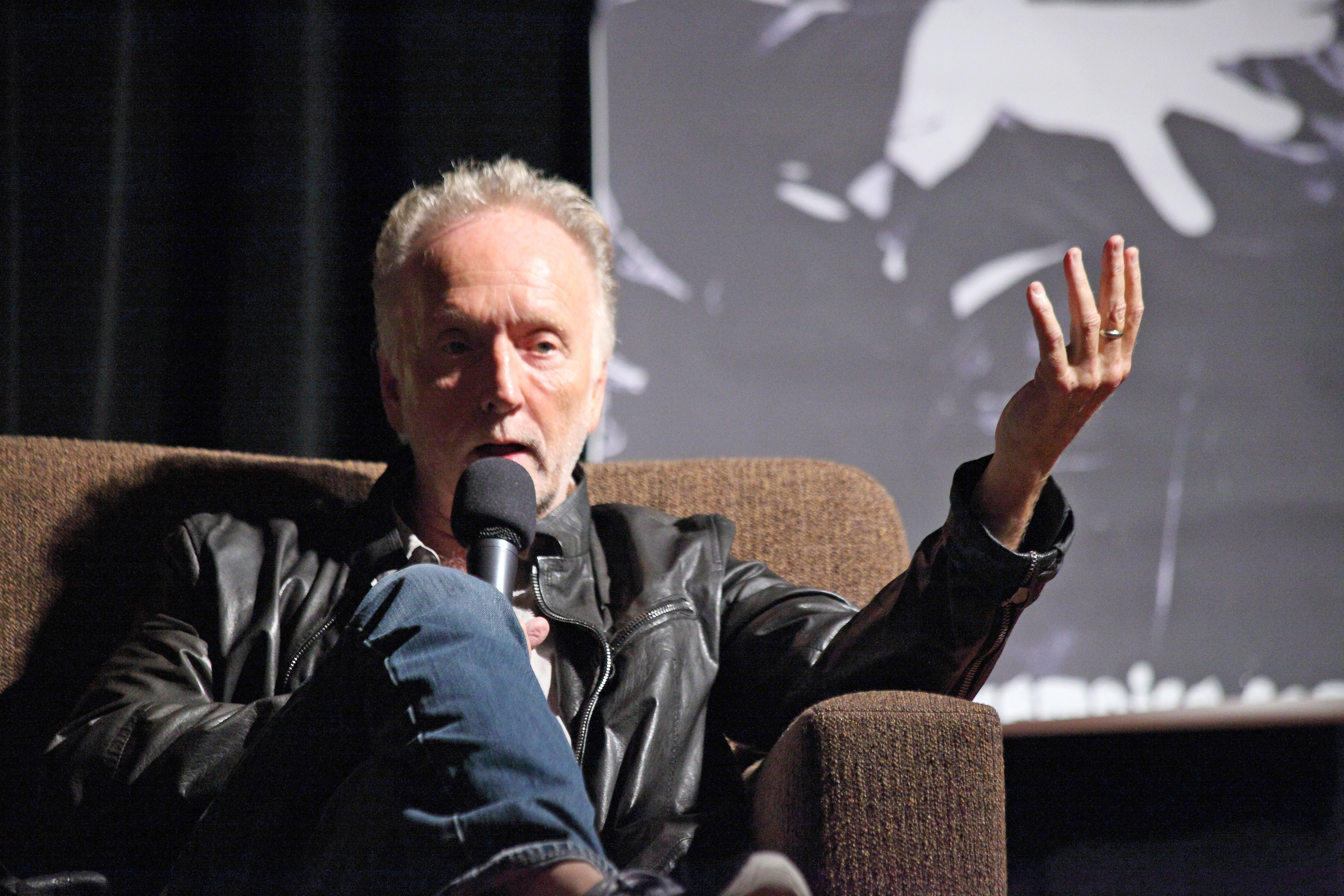 Tobin Bell at Spooky Empire Ultimate Horror Weekend 2014 in Orlando, Florida.